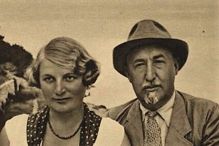 Jiří Mahen, Czech writer, with his wife (before 1939)